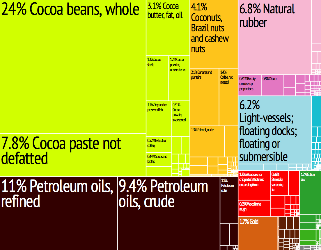 Cote D'Ivoire Export Treemap in 2011 from MIT Harvard Economic Observatory